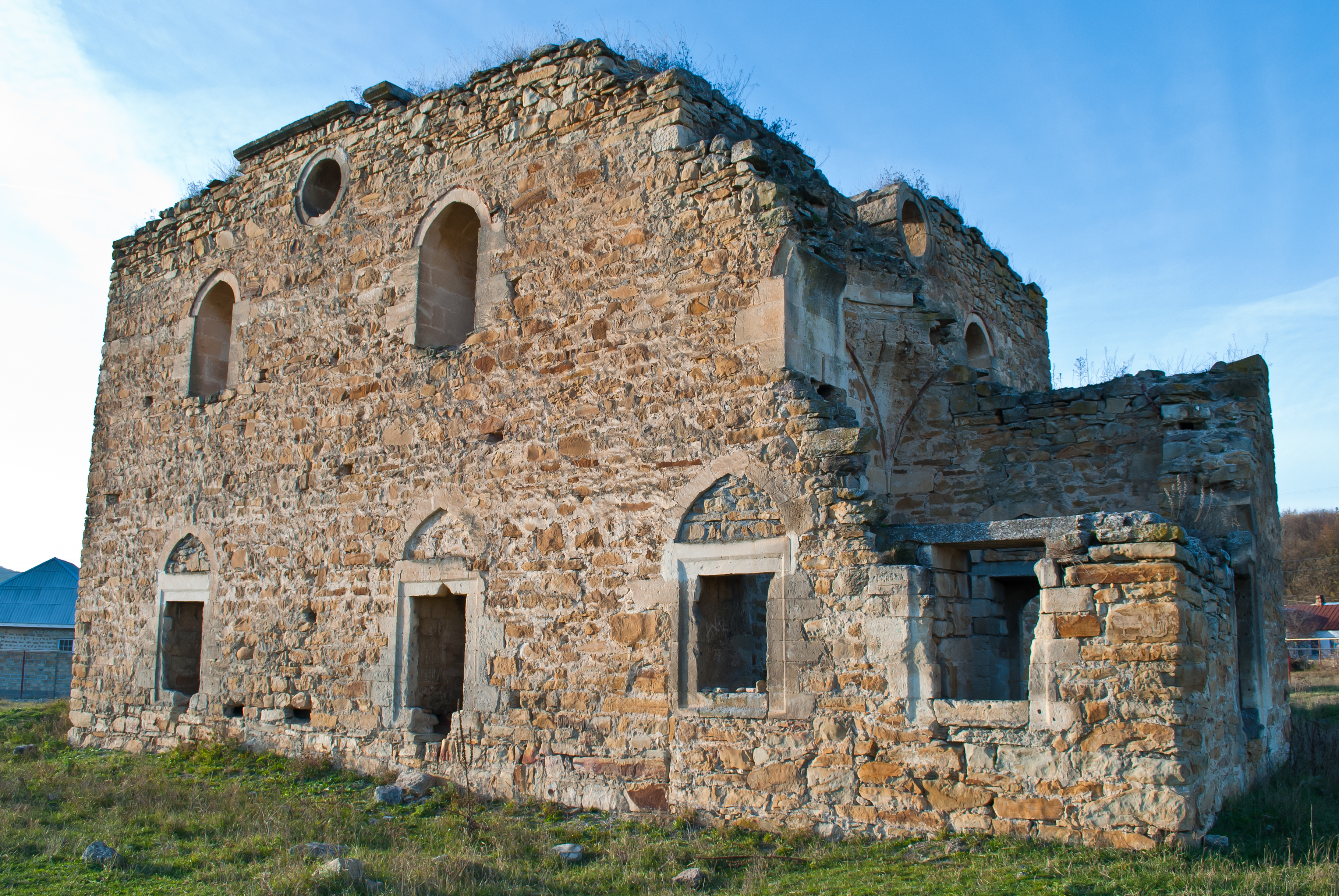 The remains of the mosque Eski-Saray (14th century) in the village Pionerskoye (Simferopol district, Crimea).